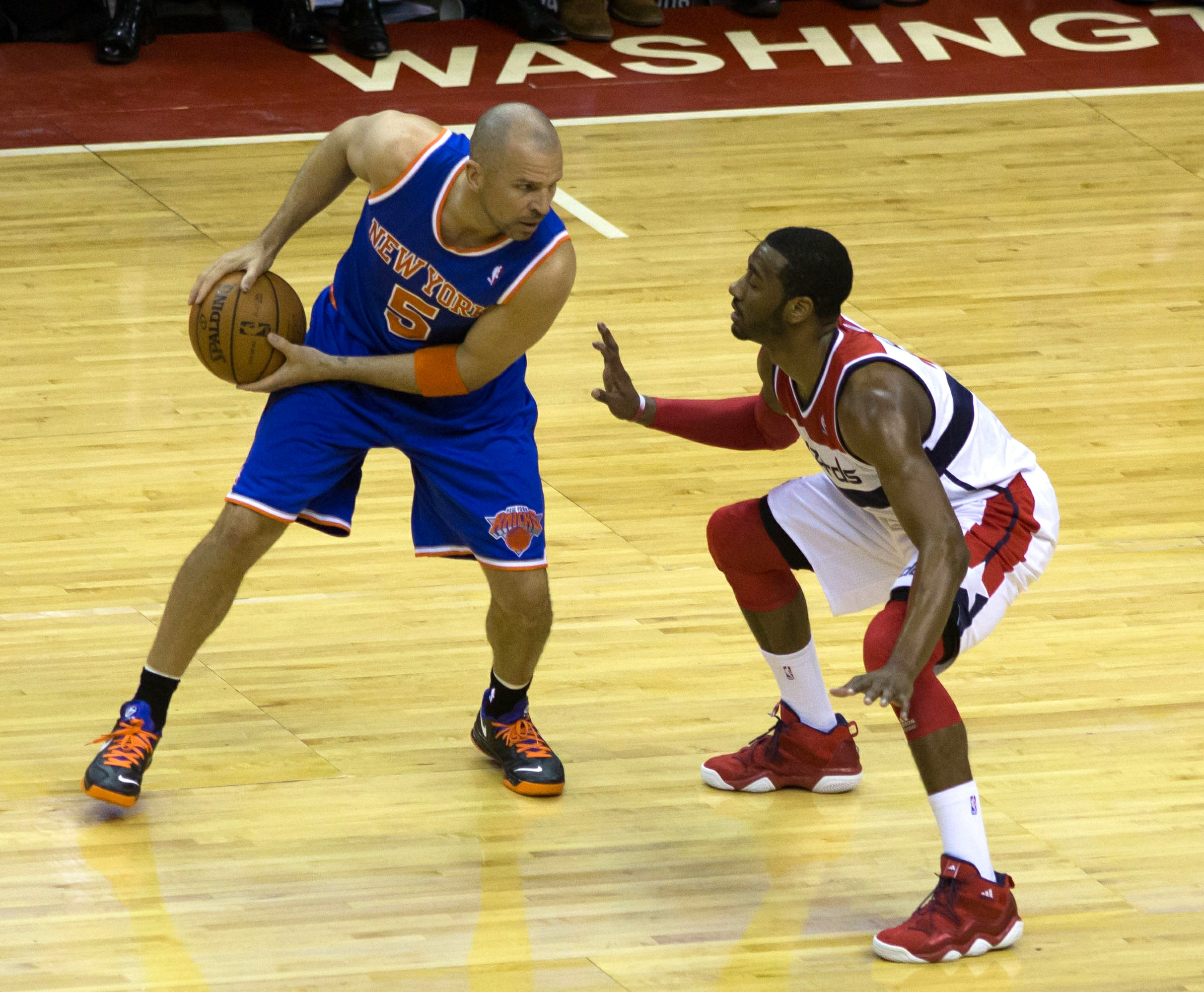 The New York Knicks' Jason Kidd against the Washington Wizards' John Wall on March 1, 2013